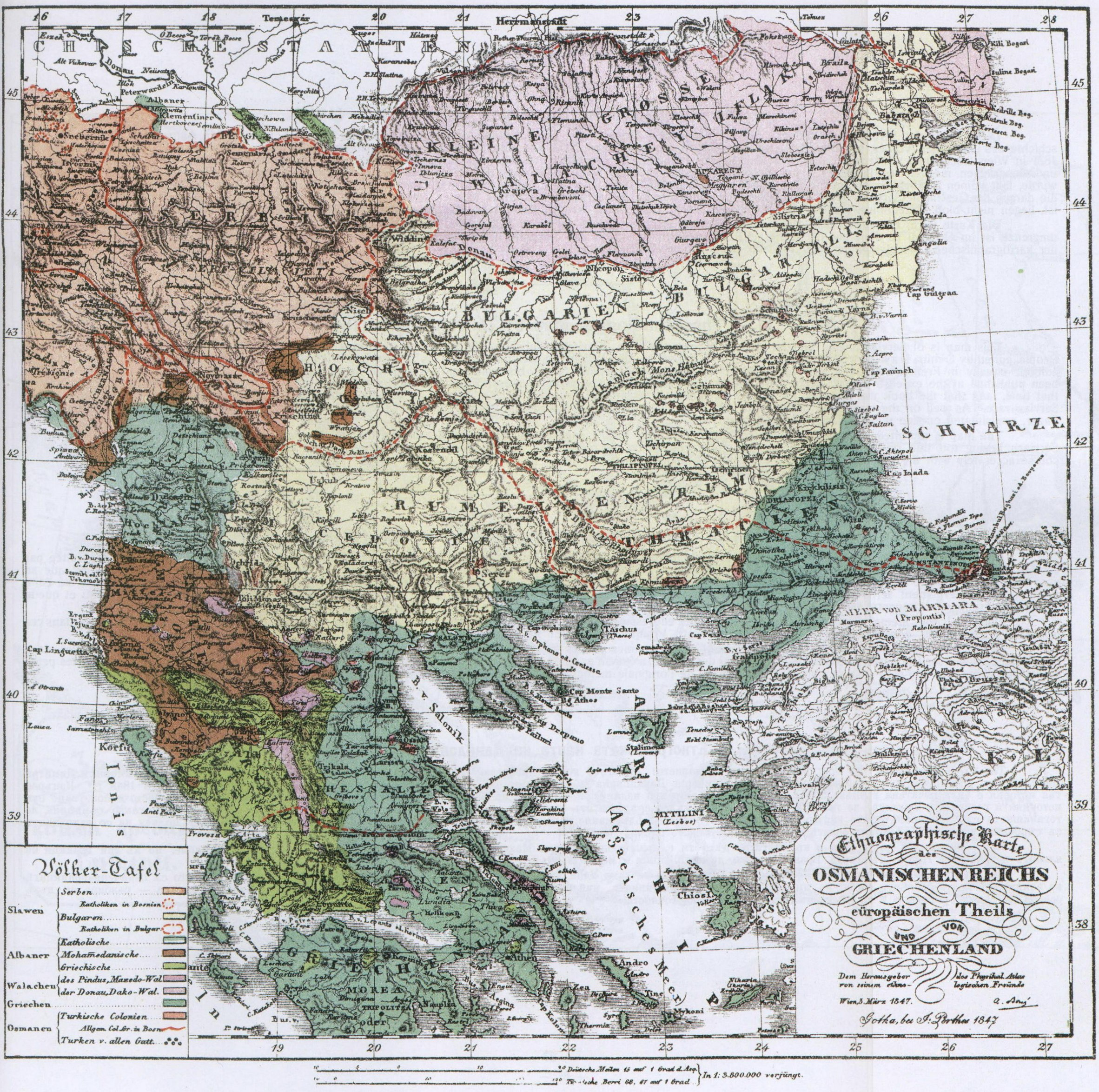 Ethnographical map of the Balkans by Ami Boué, 1847